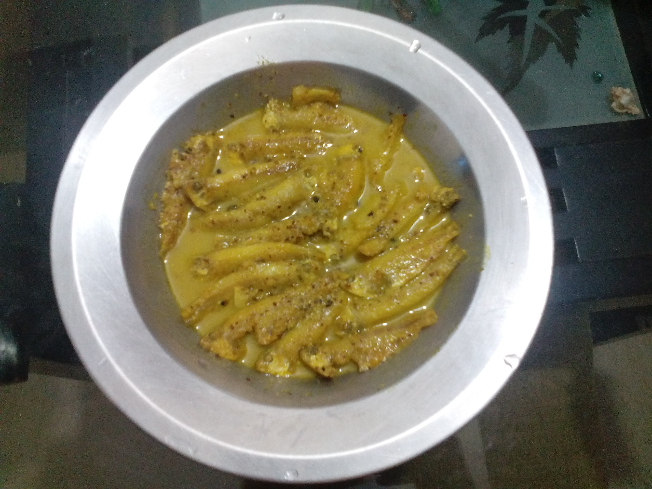 Bengali style fish curry in mustard sauce.